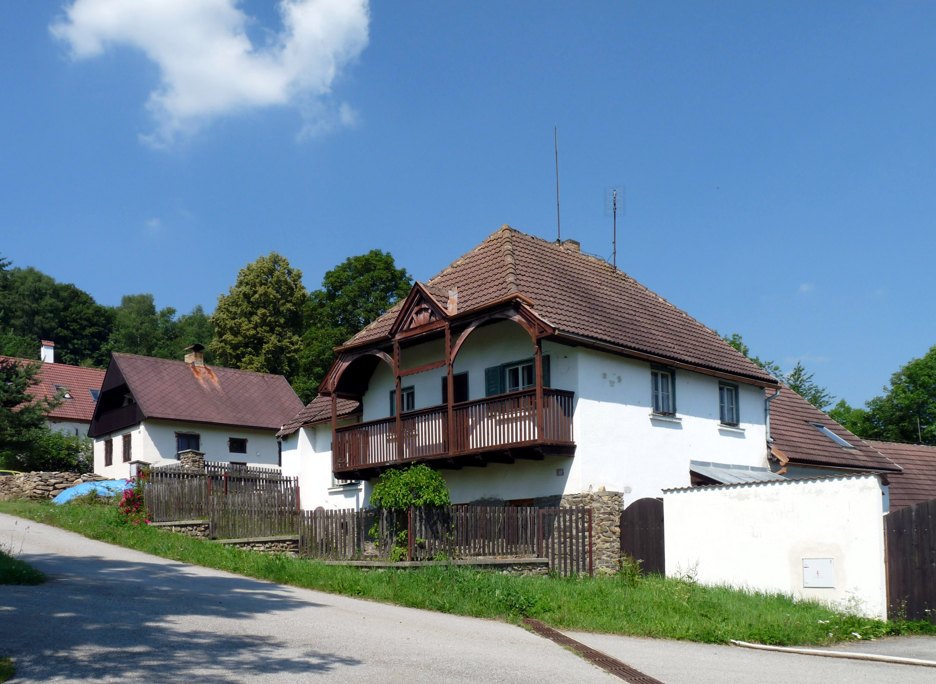 House No 48 in the village of Lučenice, Prachatice District, South Bohemian Region, Czech Republic.